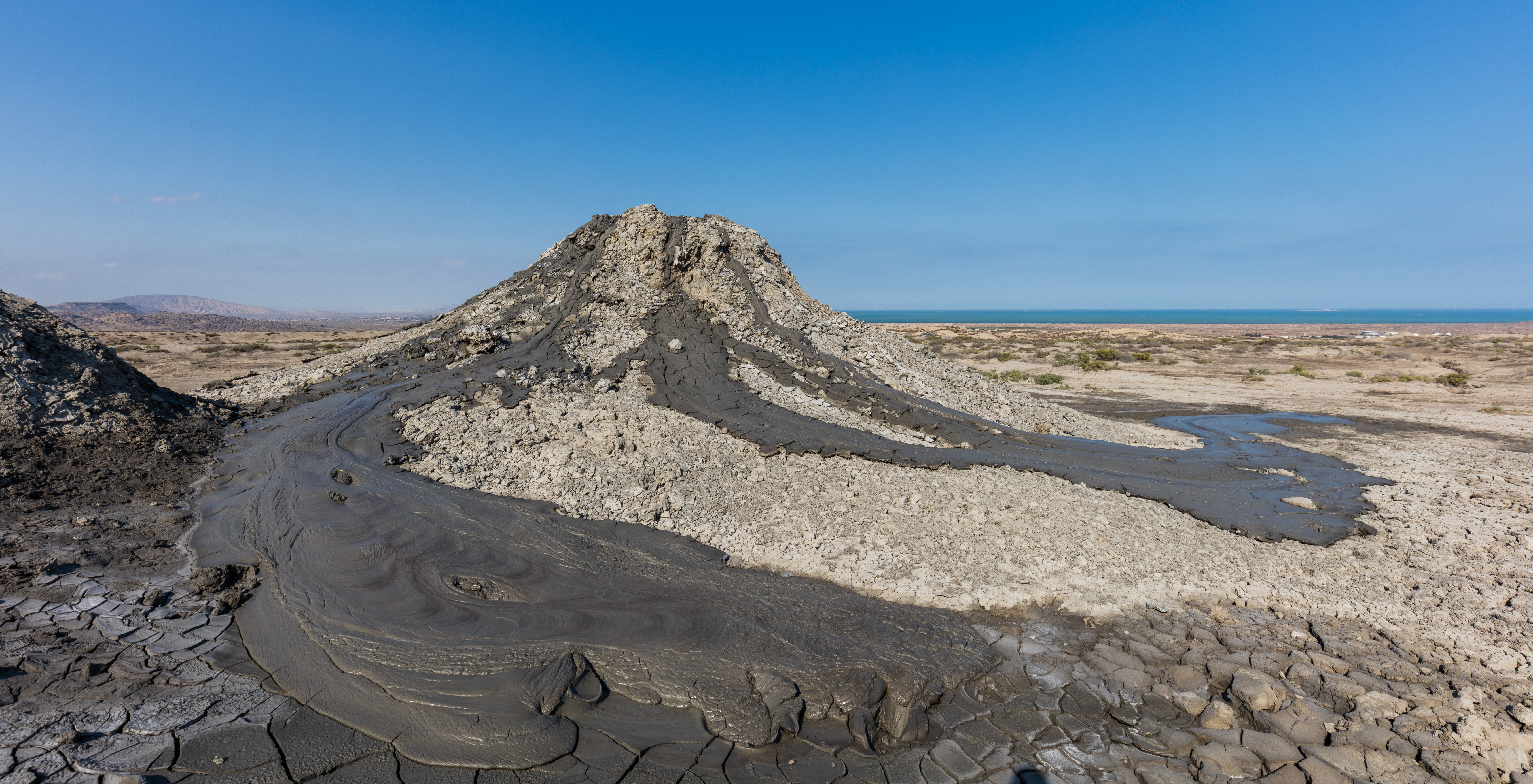 Mud volcanos, Qobutan National Reserve, Azerbaijan